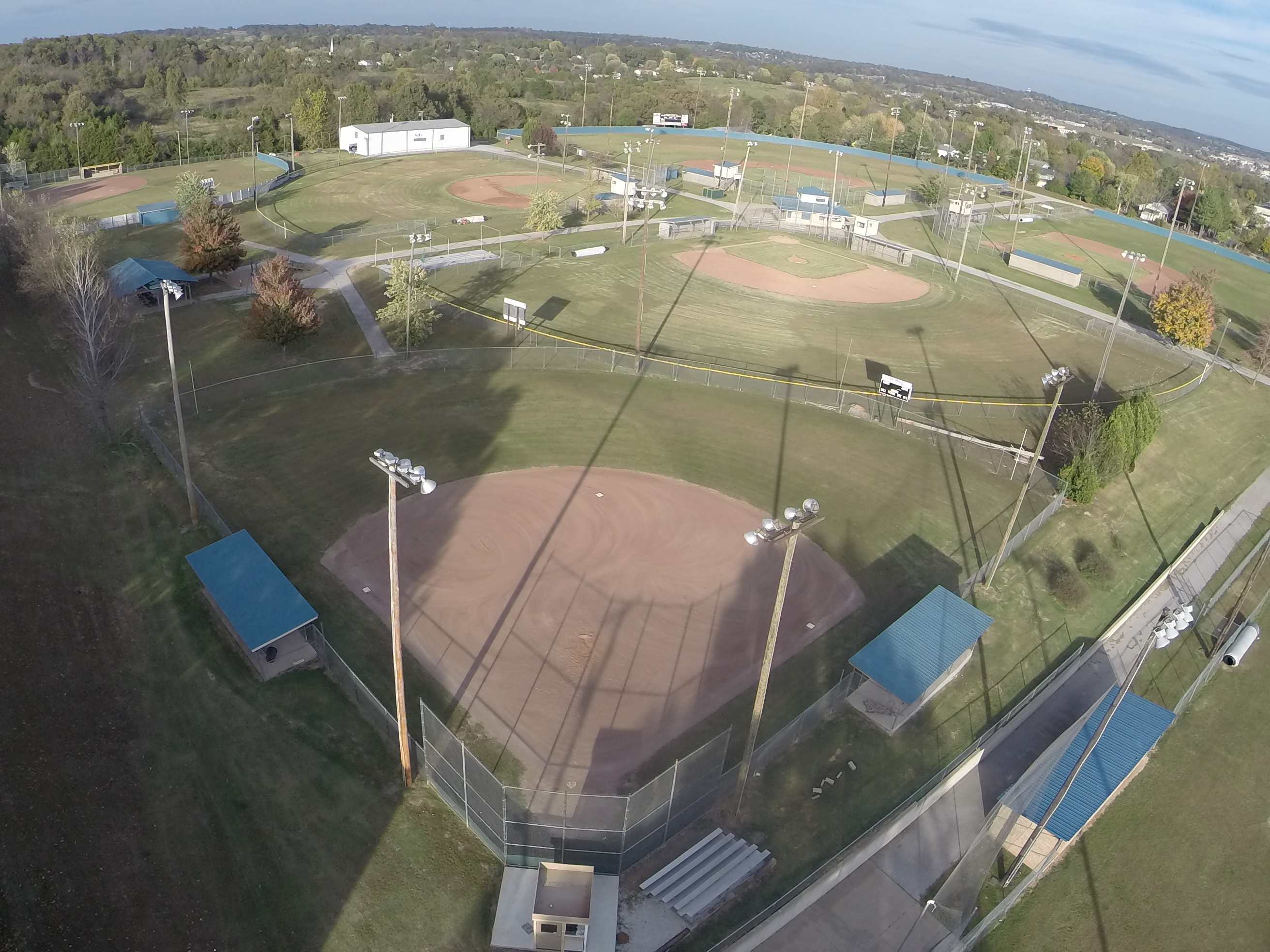 Located in Harrison, Arkansas the Equity Bank Sports Complex features state of the art baseball/softball fields.